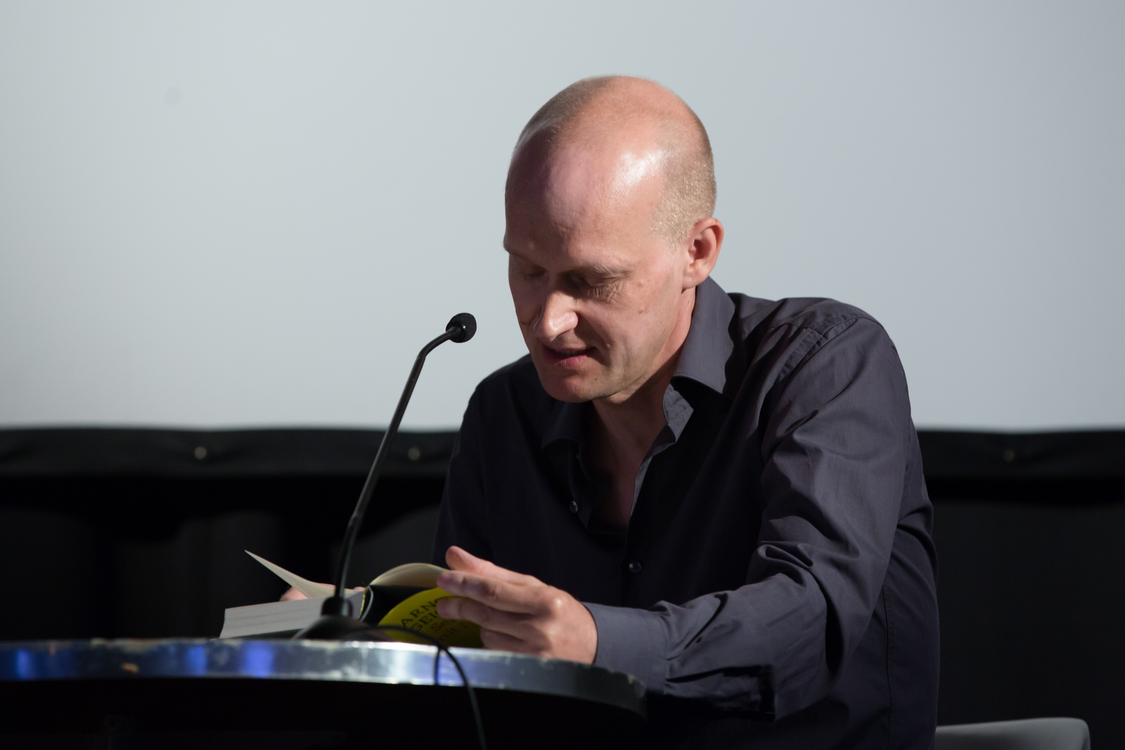 Arno Geiger reading at the opening evening the literary festival o-töne 2015 at Museumsquartier in Vienna, Austria.